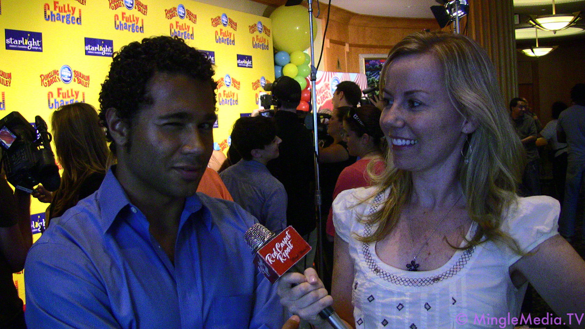 Corbin Bleu at the "Fully Charged" Red Carpet Ringling Bros. & Barnum & Bailey Circus.